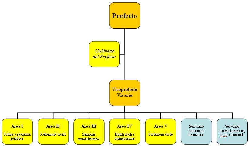 Italian prefecture typical organization